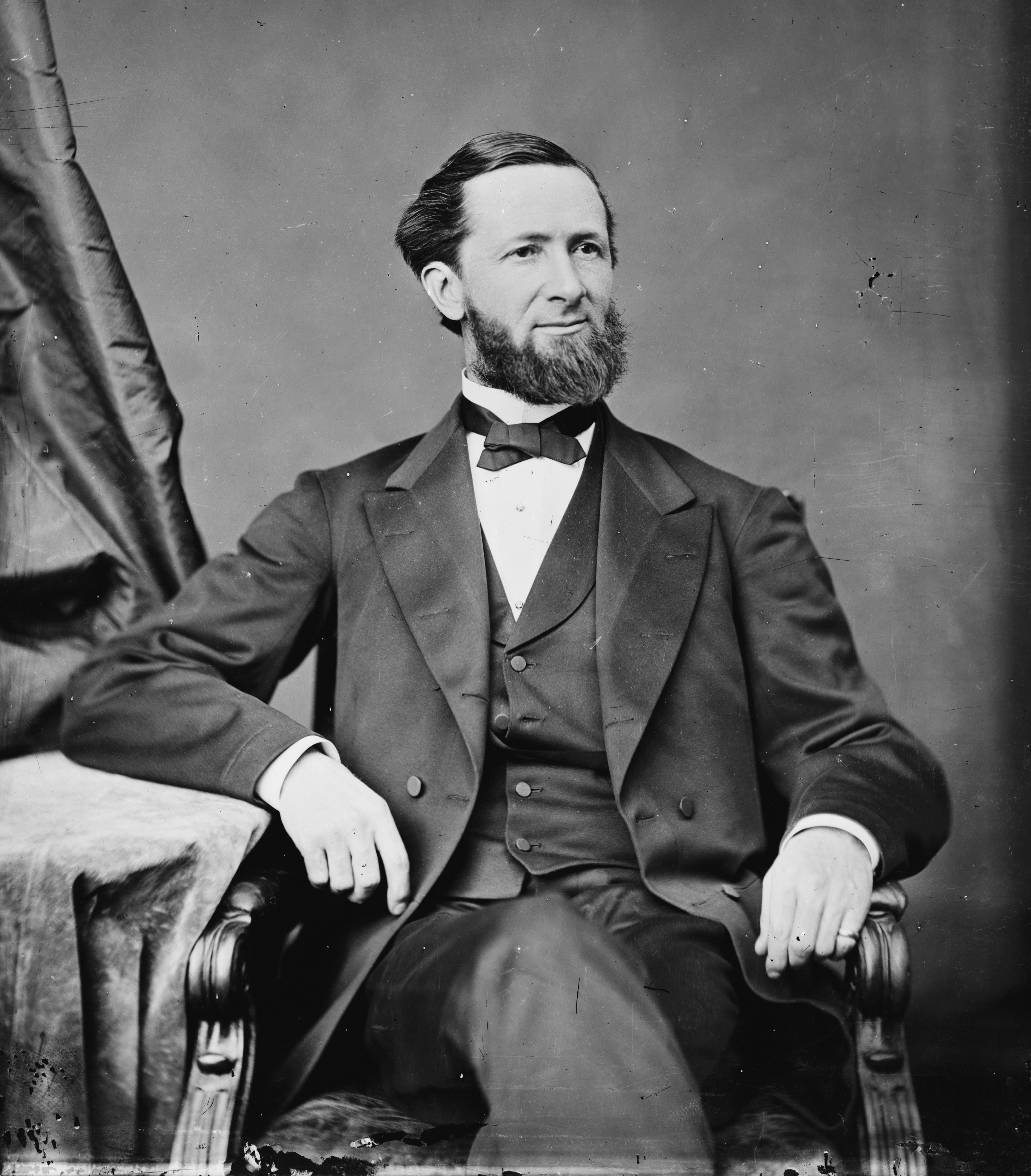 Henry W. Corbett. Library of Congress description: "Hon. Henry Winslow Corbett of Oregon"